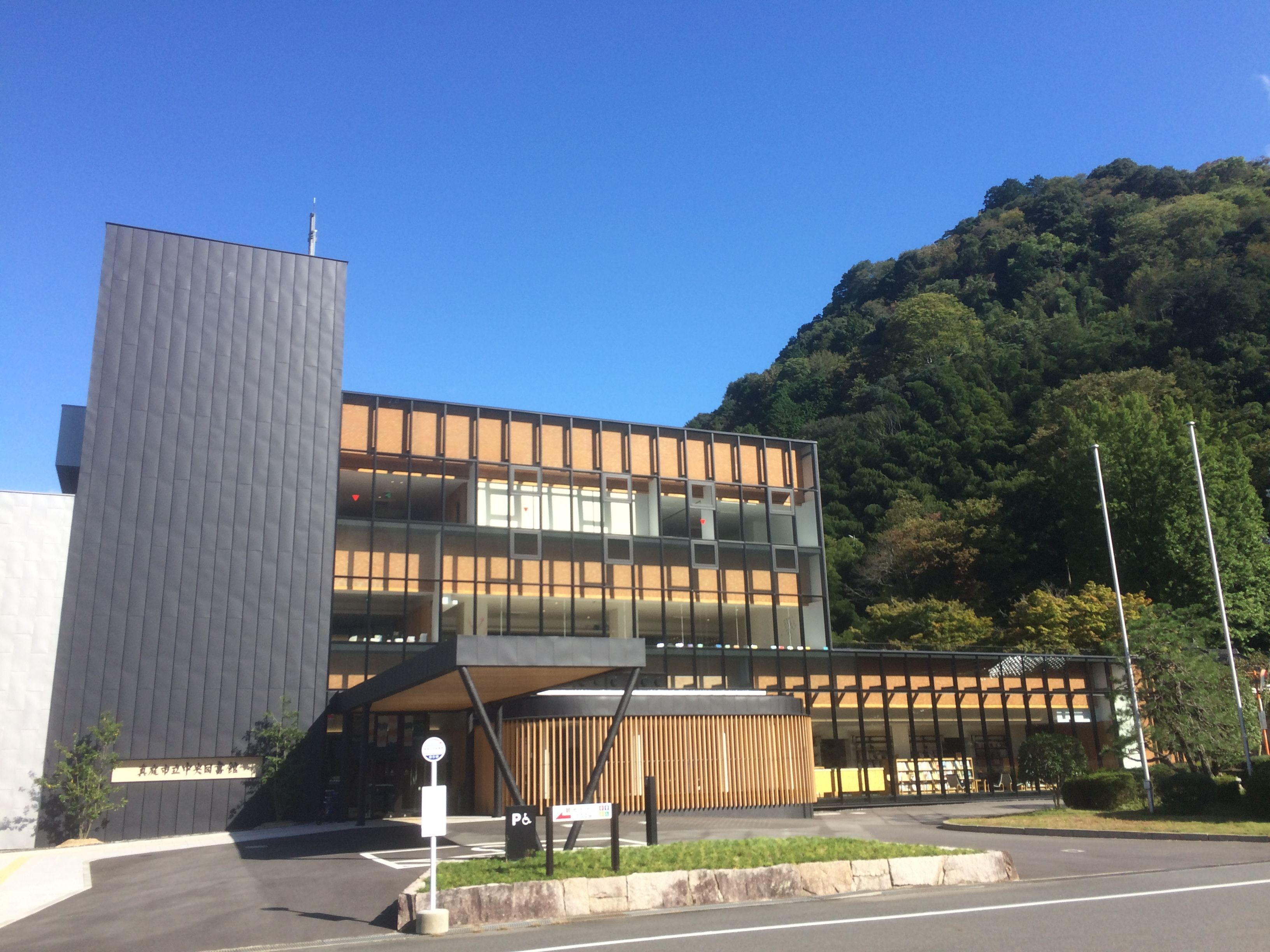 maniwa city central library